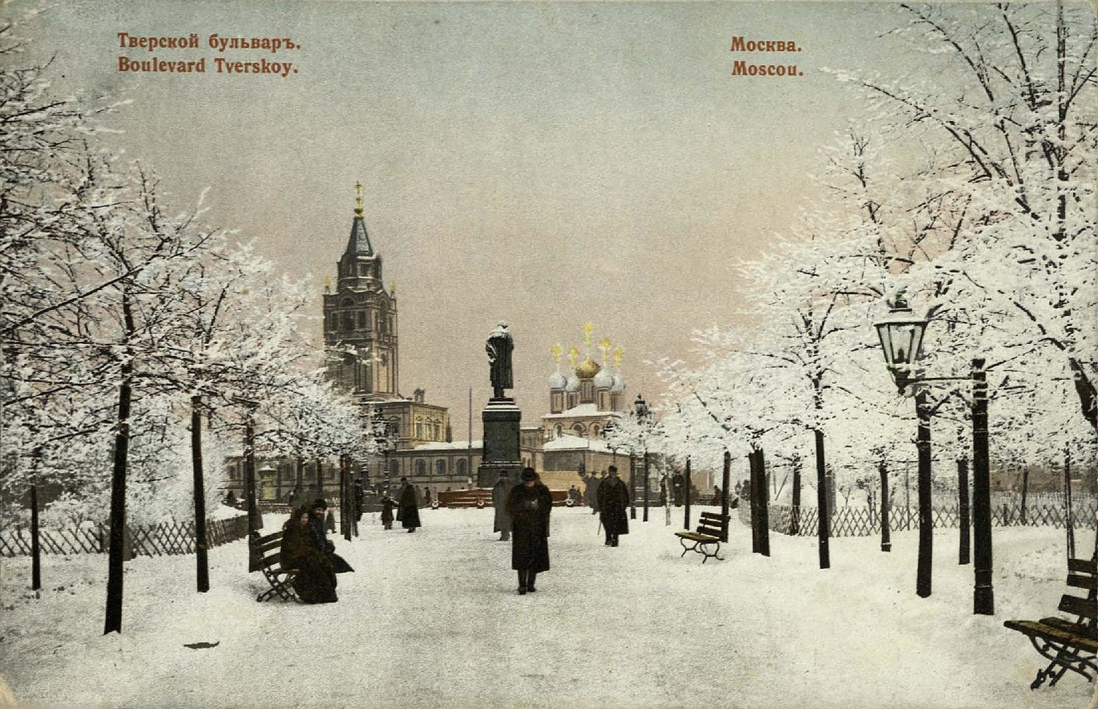 Moscow, Tverskoy Boulevard